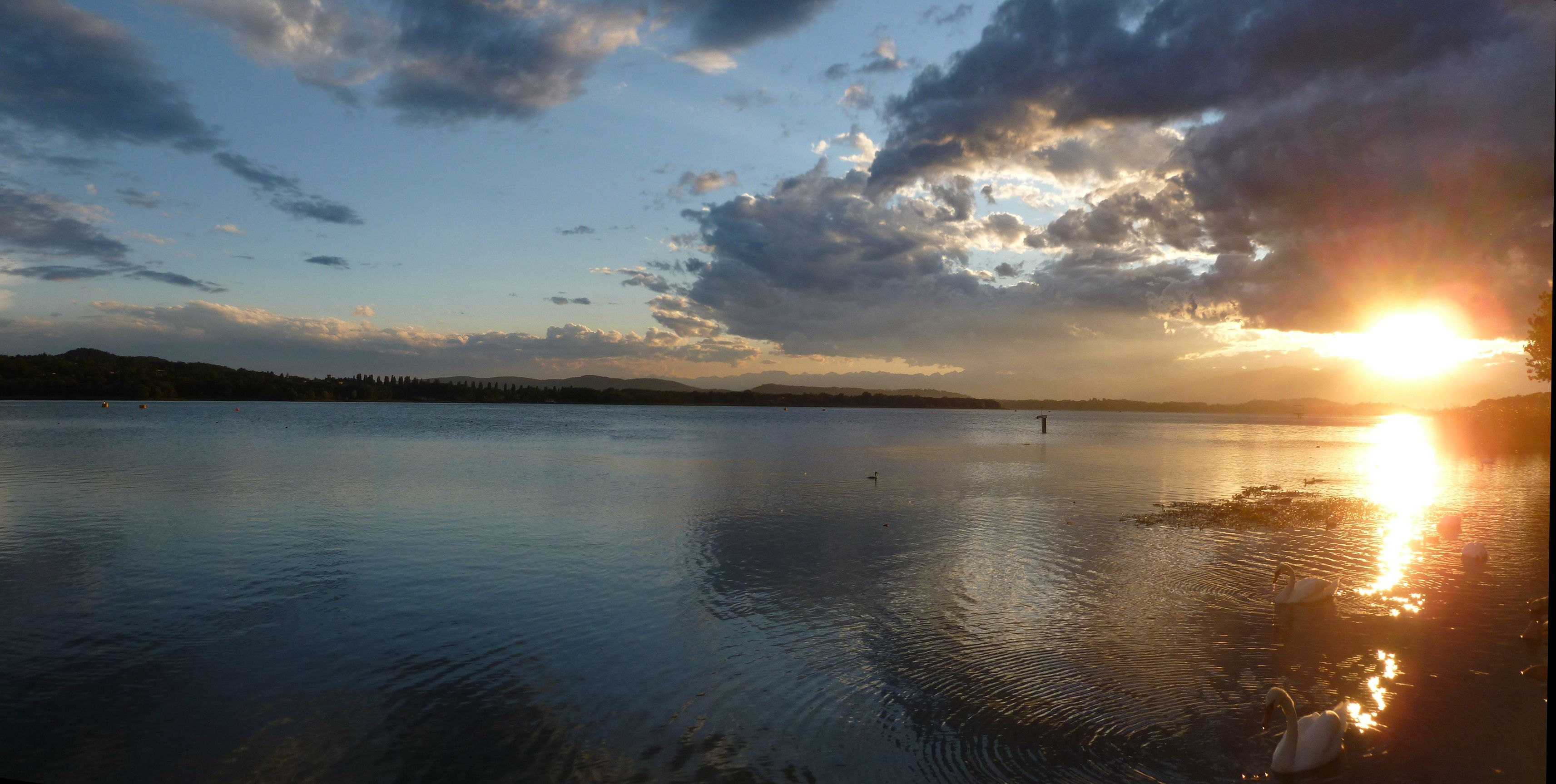 Varese lake at sunset